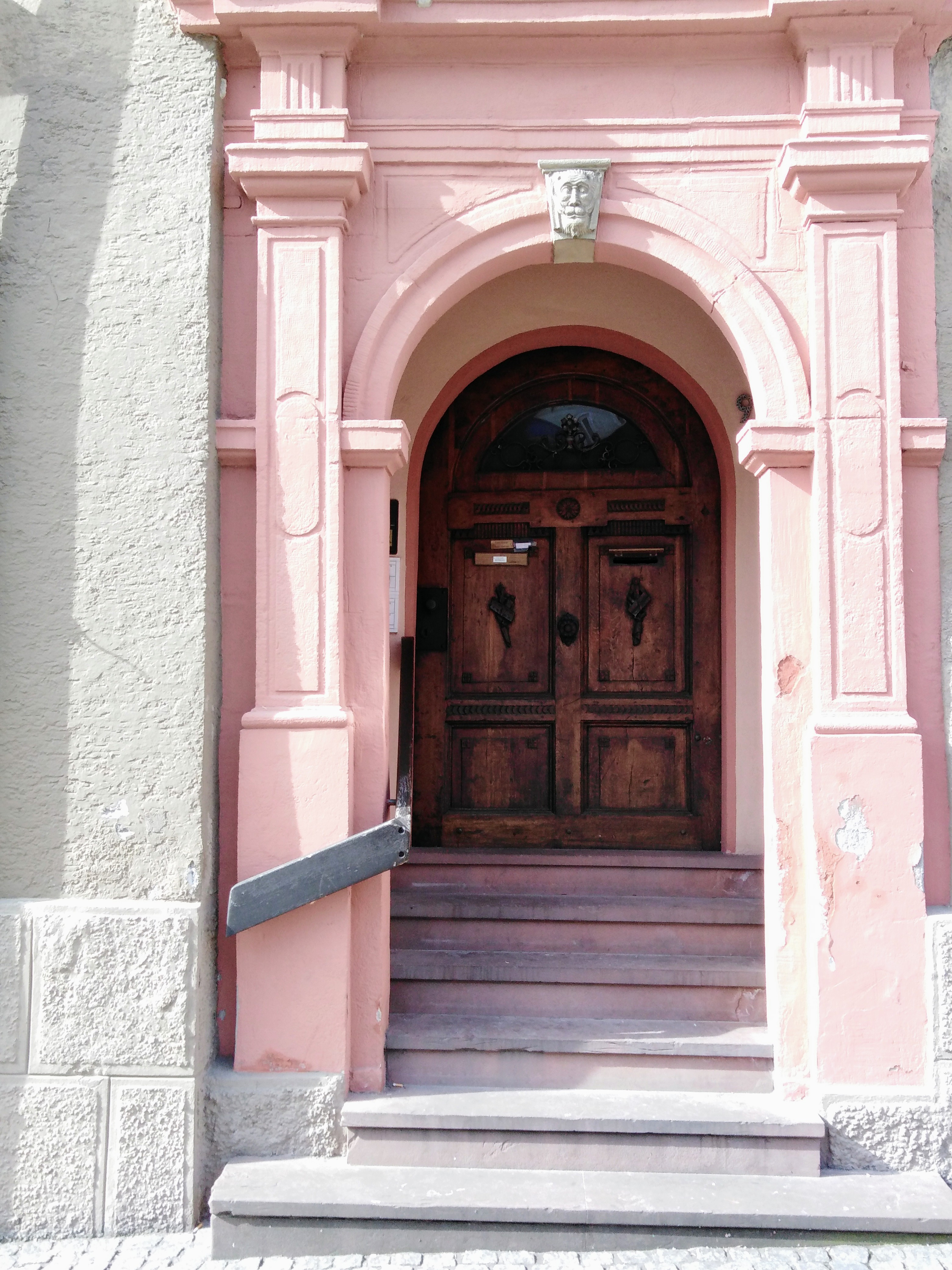 Portal Friedrichsplatz 9 (Rottweil)